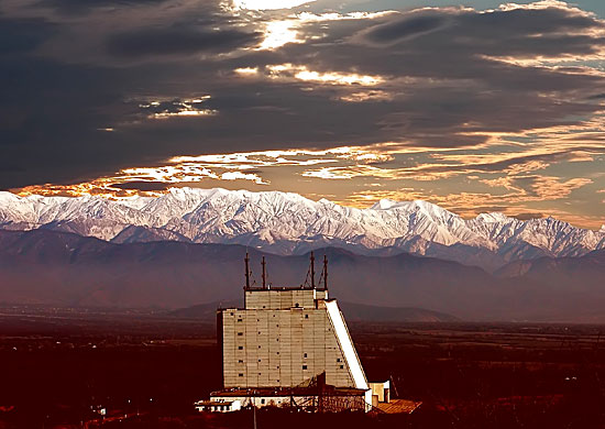 The transmitter of Gabala Radar Station